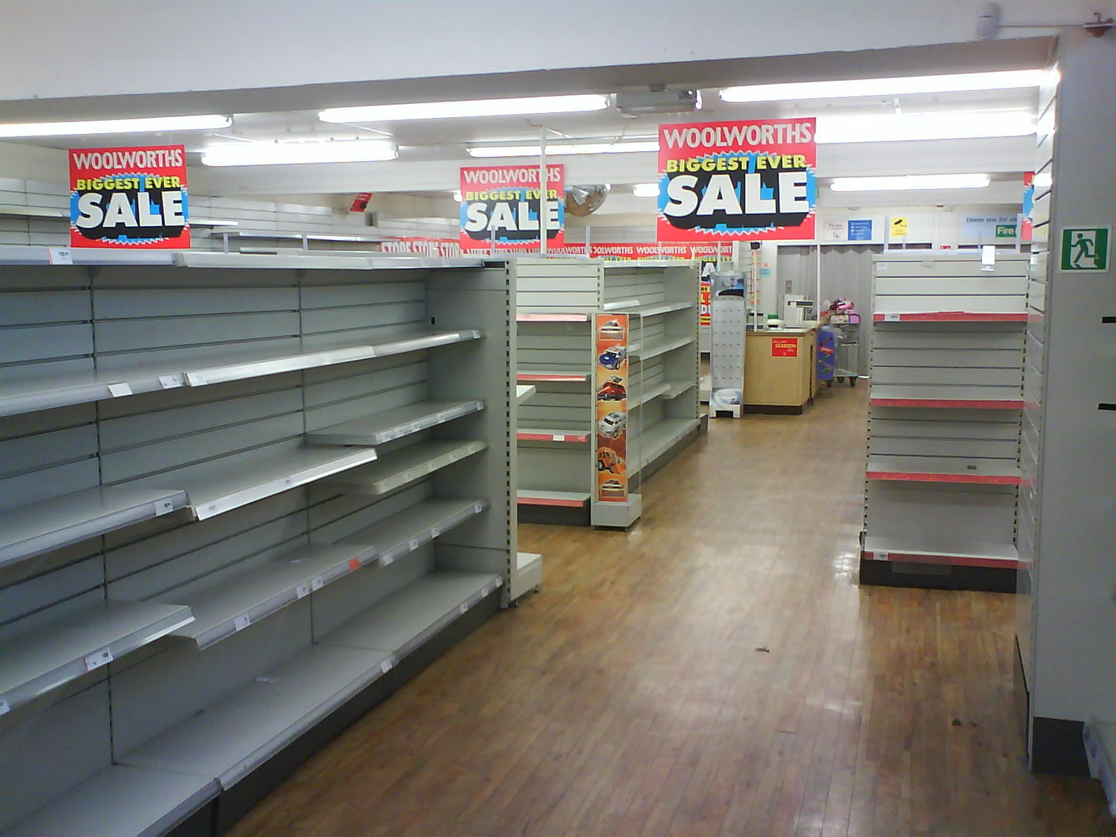 Empty shelves in Woolworths, Keswick, on the day it closed.